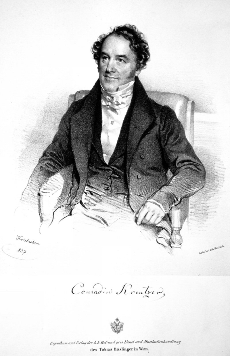 Litographic portrait of German componist Conradin Kreutzer (1780-1849)